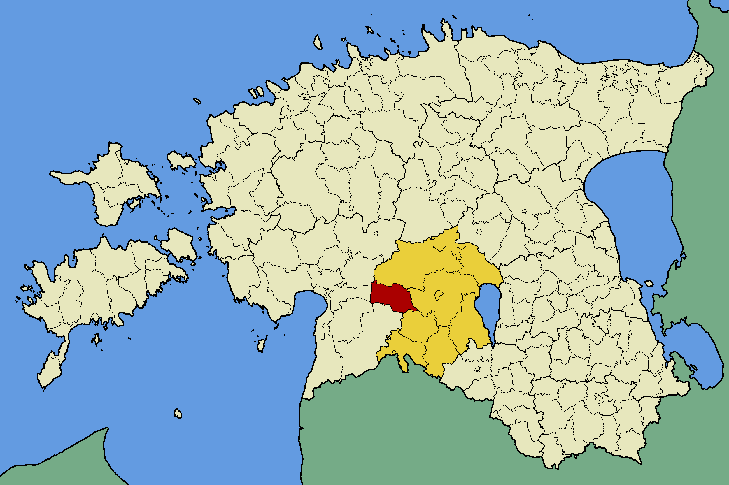 Map of Estonia with borders of municipalities (parishes). Viljandi county and Kõpu municipality emphasized.